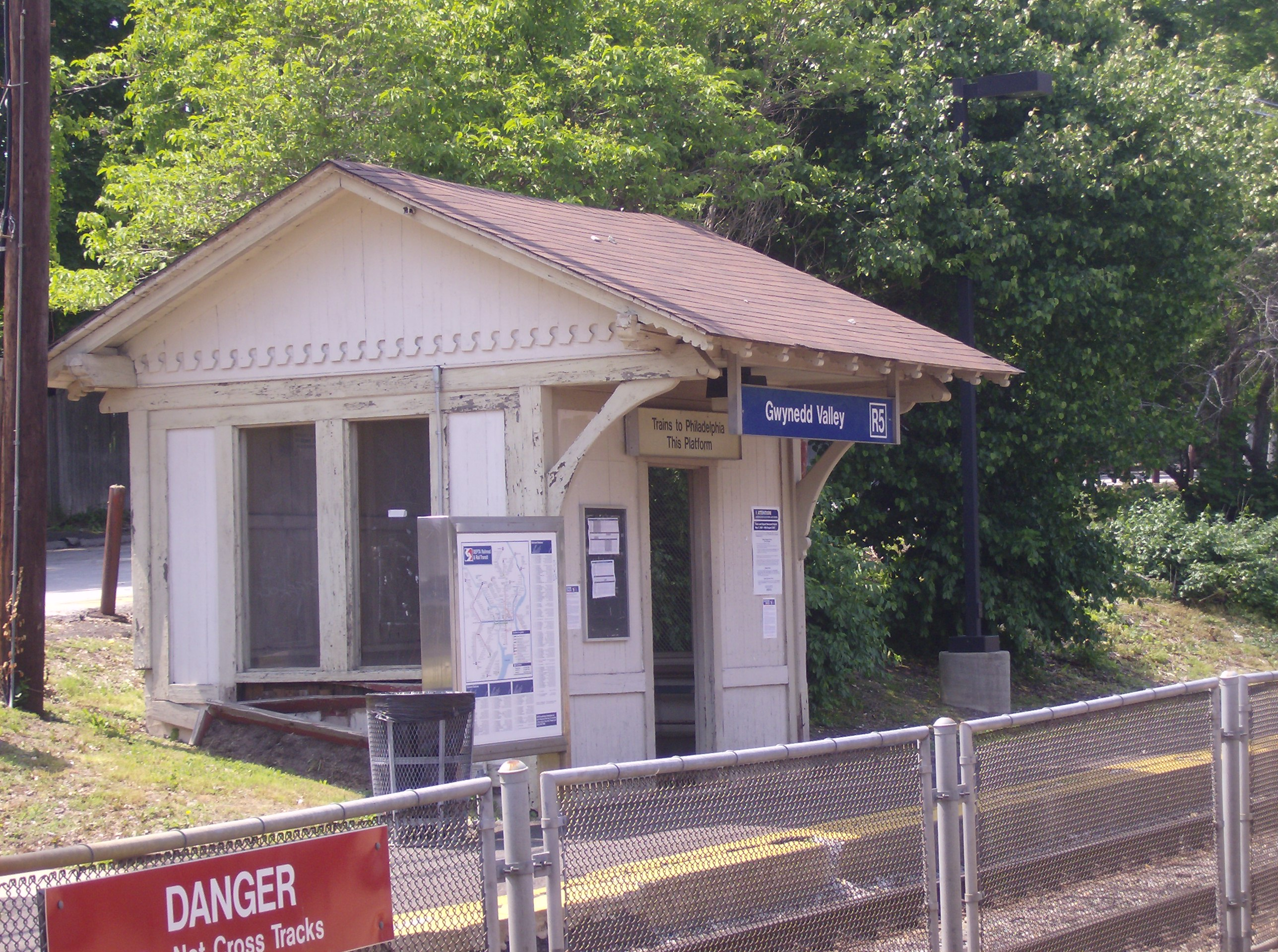 Gwynedd Valley station in May 2007